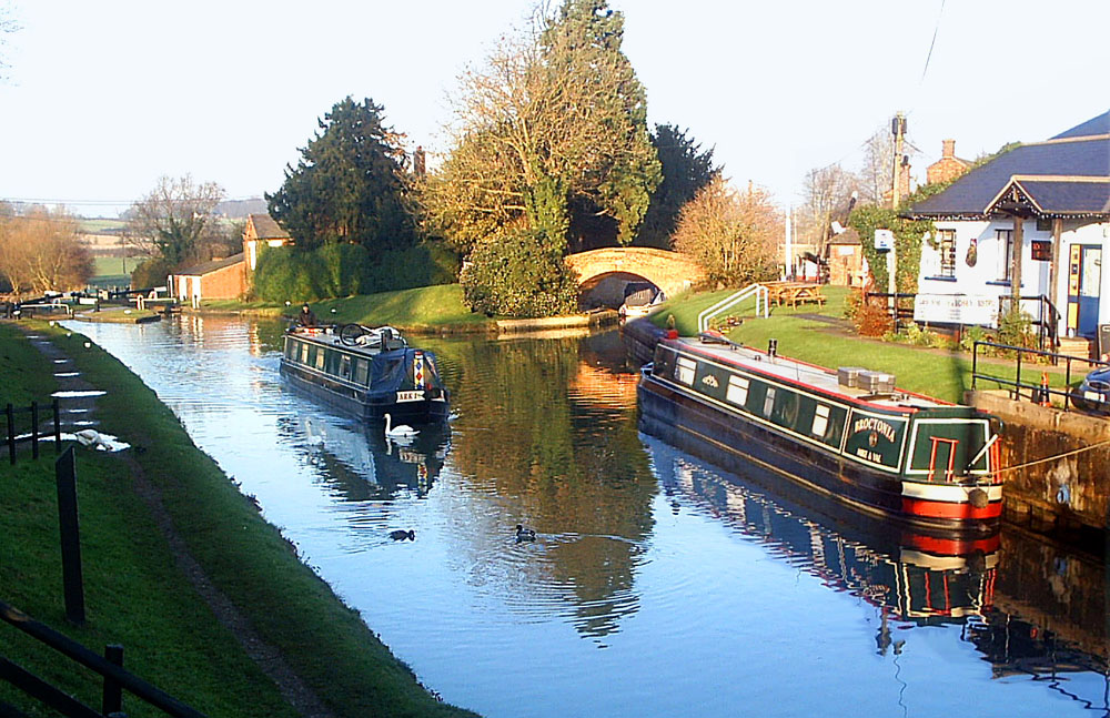 The Oxford Canal at Hillmorton on the eastern edge of Rugby in Warwickshire. At the far left of the picture can be seen the lowest of the three pairs of locks at Hillmorton. The house beside the locks, now a private residence, was once the toll office and toll-keeper's home. The small bridge beside the house carries a footpath over a short arm of the canal; the towpath, however, is on the left of the picture. The canal arm leads to a waterway repair yard and a pair of dry-docks. The white building in the right foreground was originally the repair crew's office, but is now a shop and bistro. The locks at Hillmorton were originally single, but were doubled in 1840 to cater for increased traffic. At one time this stretch of the Oxford Canal between Braunston and Coventry was one of the busiest in England. At its height more than 20,000 working boats a year would pass through these locks, mostly carrying coal from the Warwickshire and Leicestershire coalfields, to London, via the Grand Union Canal.